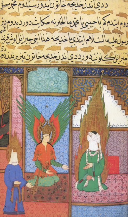 Siyer-I Nebi or Life of the Prophet